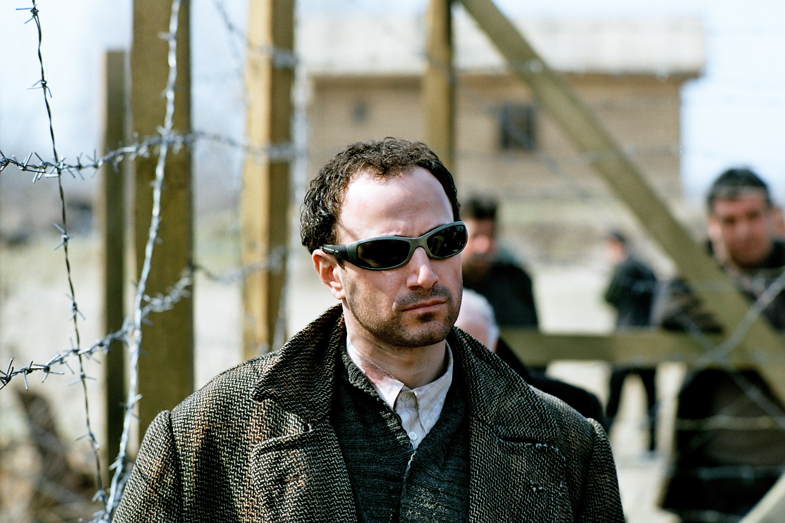 Stefan Valdobrev on the set of the film Burning Out